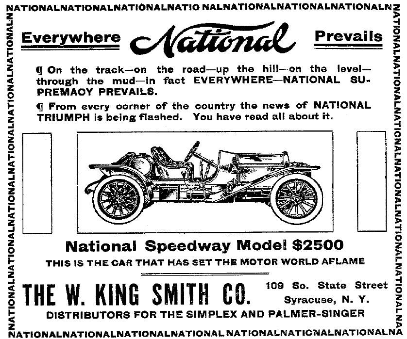 A 1910 National Automobile Advertisement